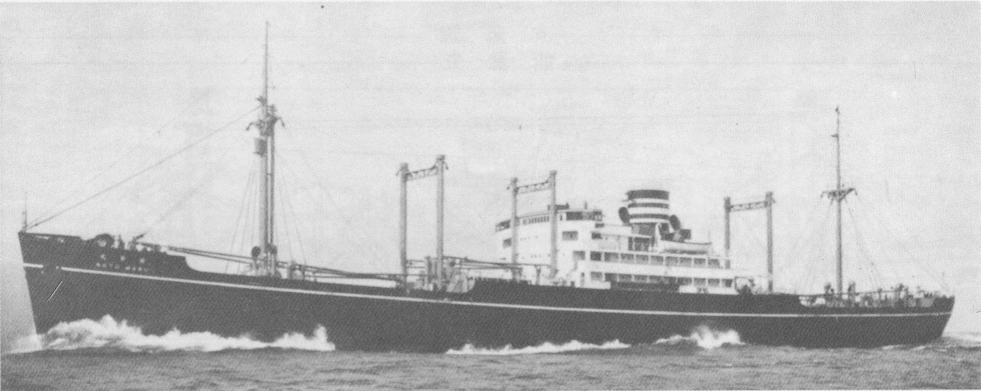 NYK Line "Noto Maru"